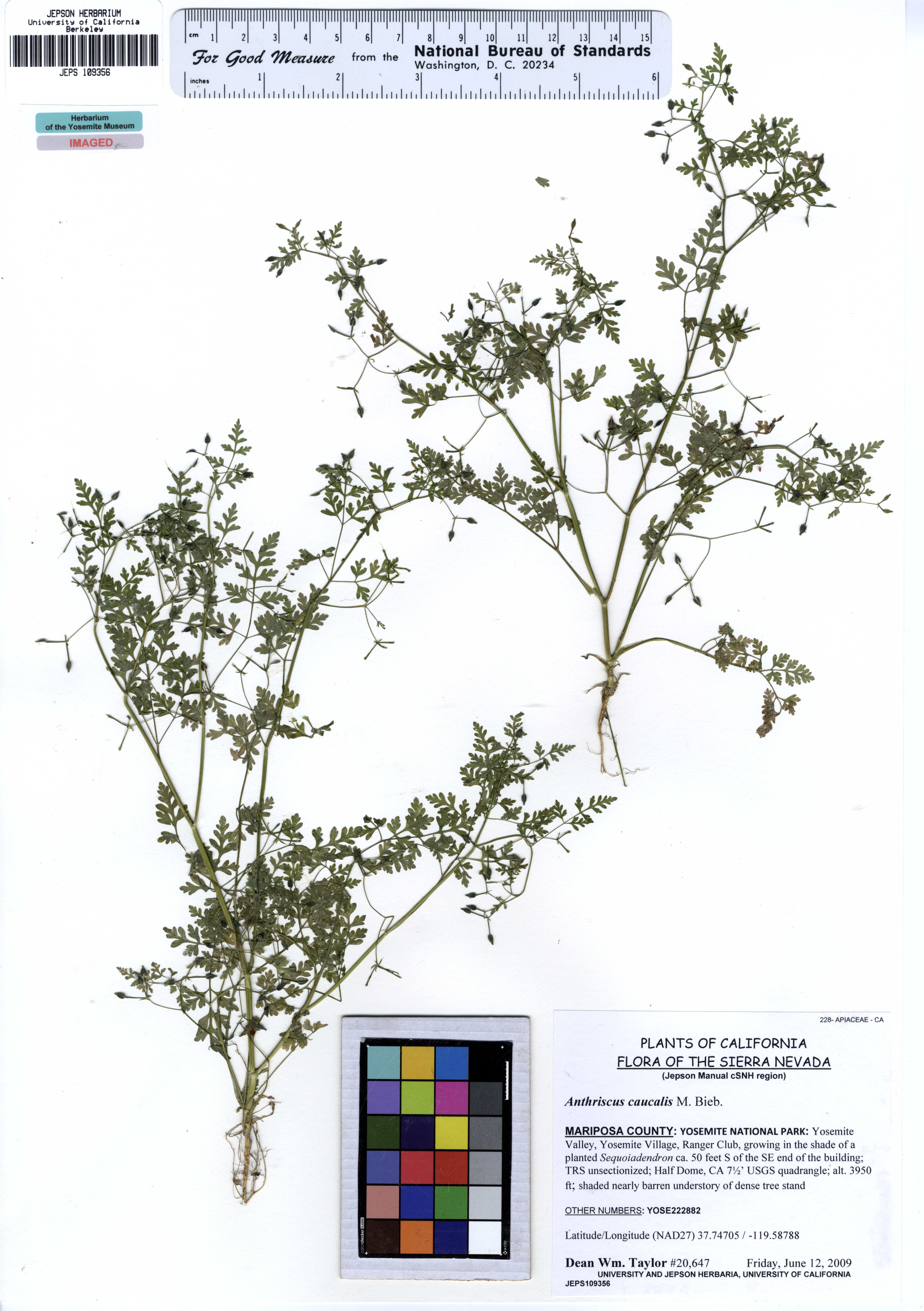 JEPS109356 Anthriscus caucalis